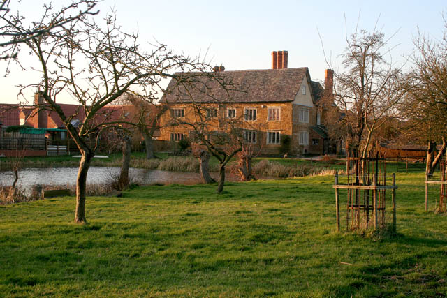 Manor House, West End, Long Clawson Overlooked by the church the Manor House built, circa 1600, in local stone with a medieval fish-pond which is still stocked today. On the roadside, is a listed mud wall which was been restored during the autumn of 2007. The owners run a bed & breakfast.